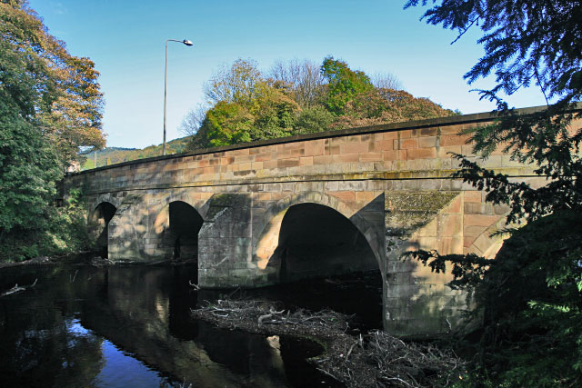 Bridge over the Derwent at Rowsley Carries the A6 to Bakewell.